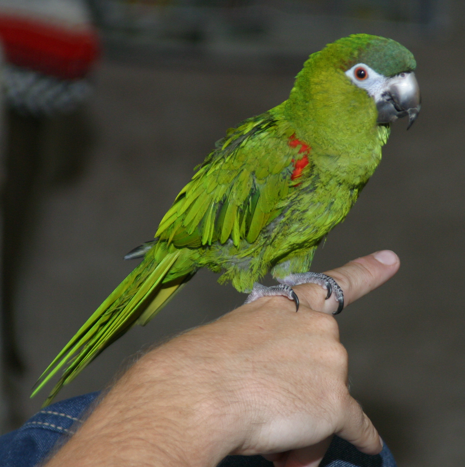 Red-shouldered Macaw (Diopsittaca nobilis). The photograph shows a Hahn's Macaw (D. n. nobilis) pet parrot perching on a finger. There are three subspecies with the common names Noble macaw, Long-wing macaw, and Hahn's macaw.